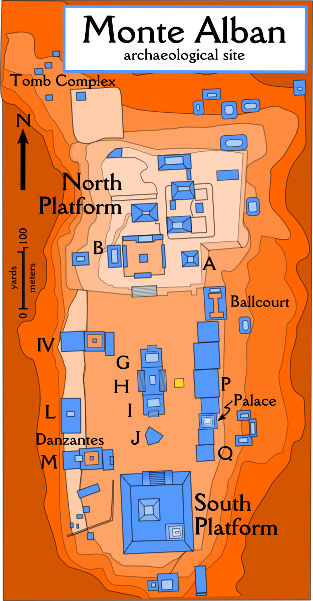 Plan of the Monte Alban archaeological site, created by MapMaster. The SVG original (which turned out to be smaller than anticipated) can be found at Image:Monte Alban archaeological site.svg.